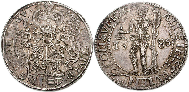 Germany, Julius as Fürst of the Principalities of Brunswick-Wolfenbüttel (1568-1589) and Calenberg (1584-1589). Ag Thaler (41mm, 29.09 g, 9h). Goslar mint; Andreas Küne, mintmaster. Dated 1586. M • G • IVLIVS • D • G • D • BR • E • L • G V, helmeted arms / ALIIS INSERVIENDO CONSVMOR, Wildman standing facing slightly left, holding tree and candle. Welter 586; Davenport 9064. Good VF. Welter 578.